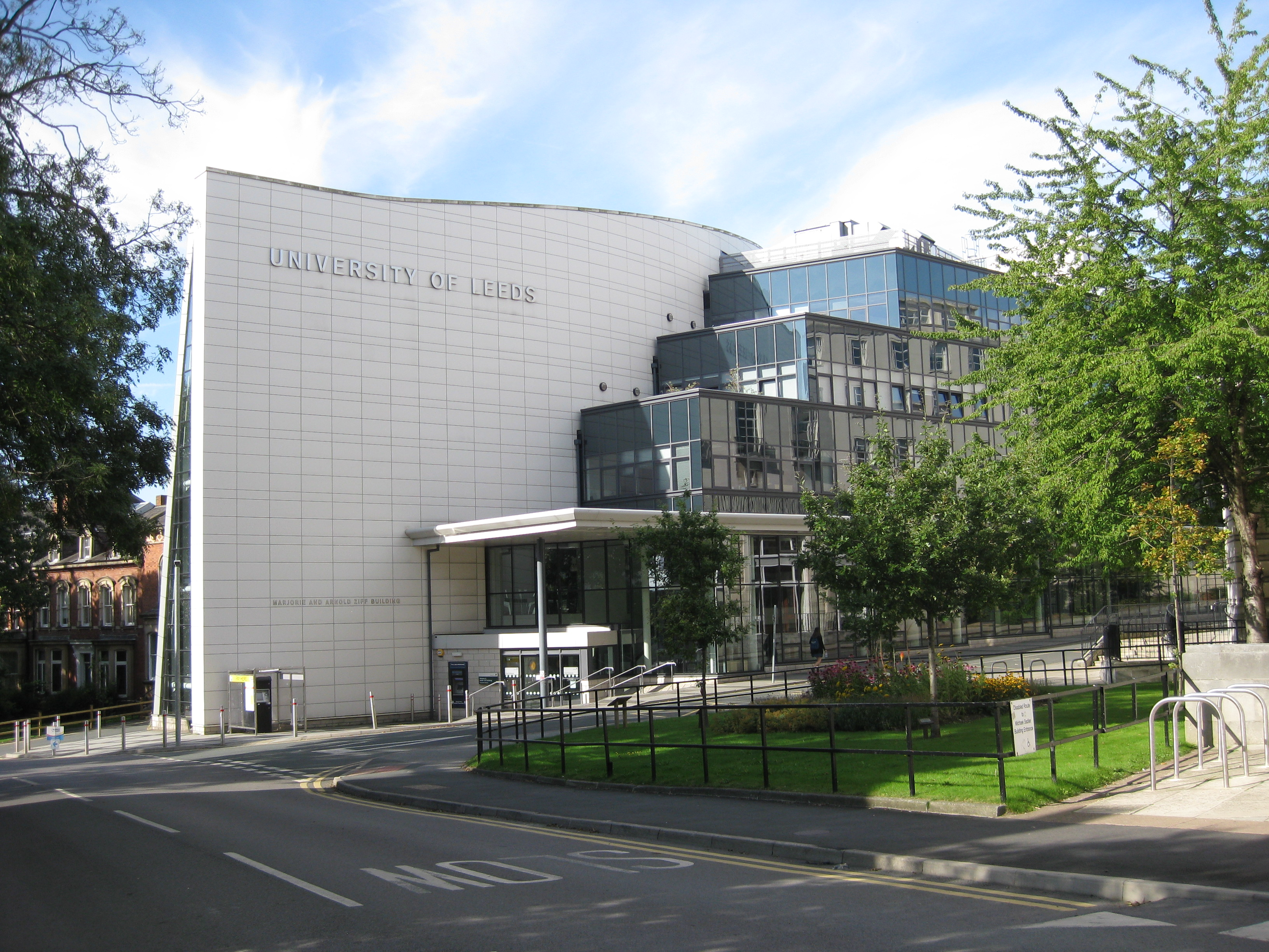 Marjorie and Arnold Ziff Building, University of Leeds. North Side, viewed from Cavendish Road. The other road is Beech Grove Terrace.